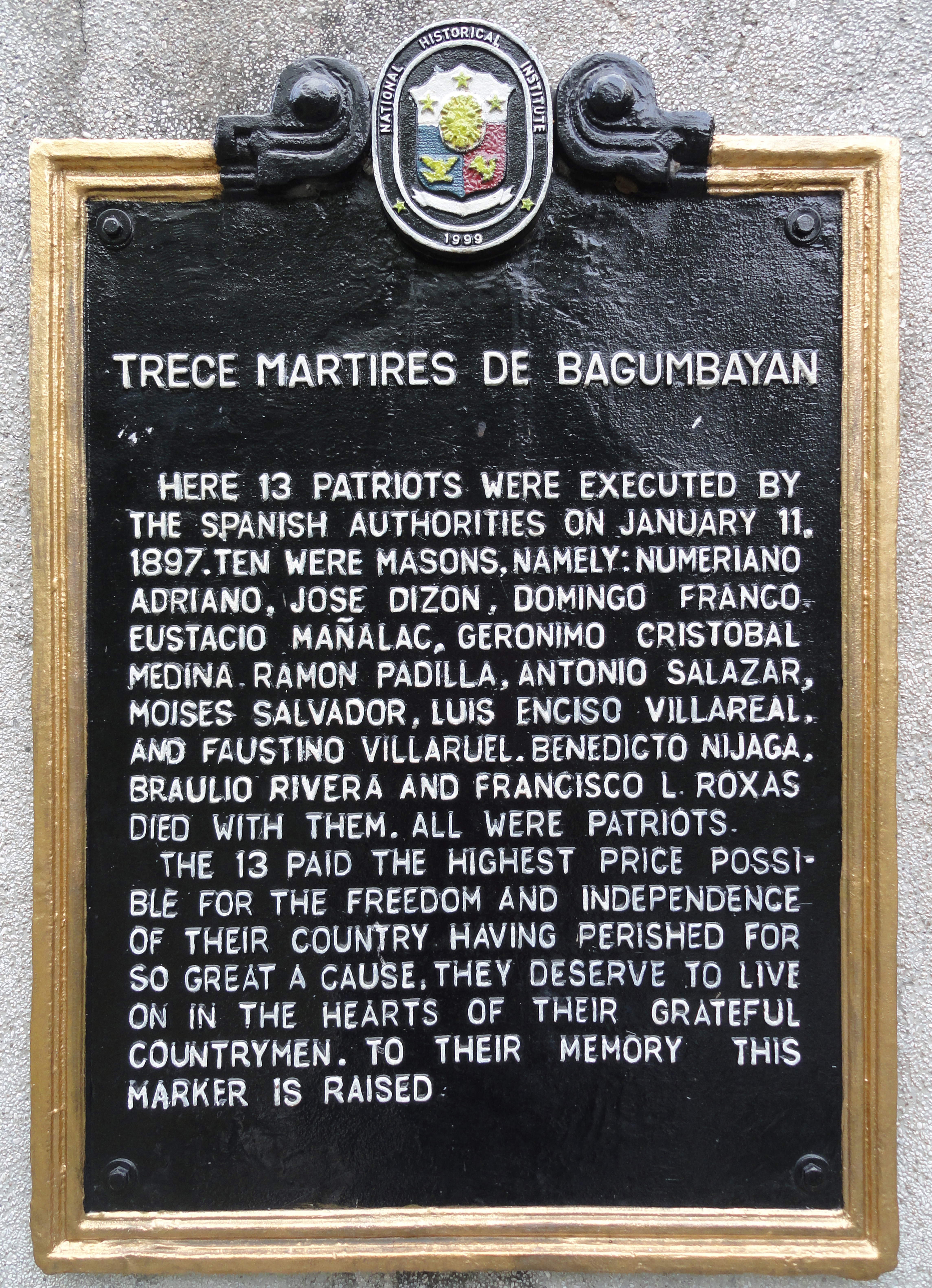 Trece Martires de Bagumbayan (Thirteen Martyrs of Bagumbayan) Historical Marker, Luneta